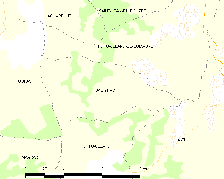 Map of French municipality Balignac